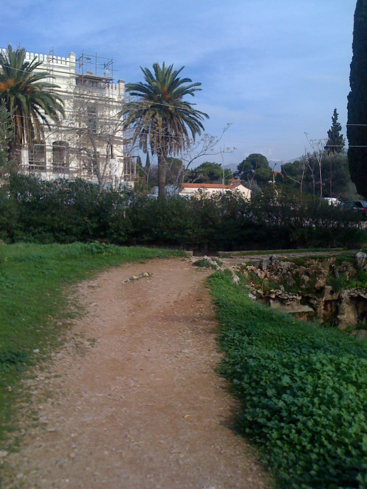 The mansion in the Syngros forest